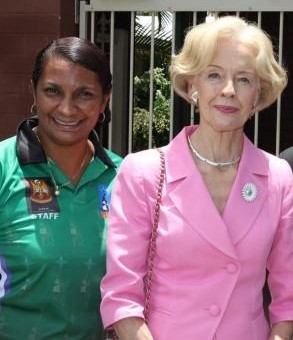 Cropped photograph of Nova Peris (left) and Governor-General Quentin Bryce (right) at the Nova Peris Girls' Academy in Darwin in February 2012